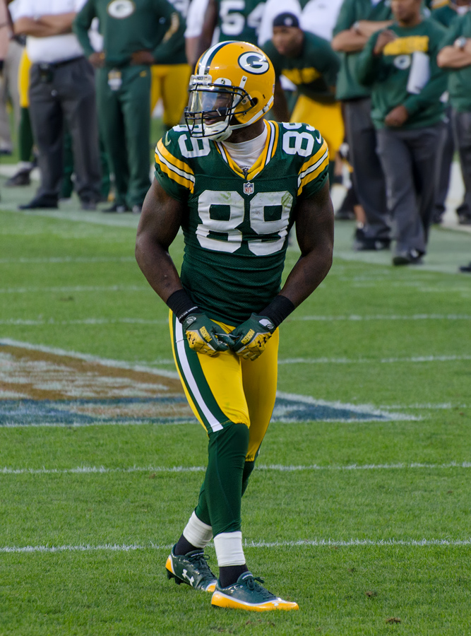 San Francisco 49ers vs. Green Bay Packers at Lambeau Field on September 9, 2012. Photo by Mike Morbeck.